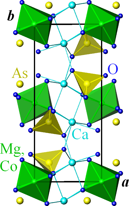 Crystal structure of roselite, Ca2(Mg,Co)(AsO4)2·2(H2O), P21/c, viewed along the c direction. Green: magnesium and cobalt atoms (mixed occupancy), cyan: calcium atoms, yellow: arsenic atoms, blue: oxygen atoms. The hydrogen atoms are not represented. Data source: F.C. Hawthorne & R.B. Ferguson (1977) "The crystal structure of roselite", The Canadian Mineralogist 15(1): 36-42.